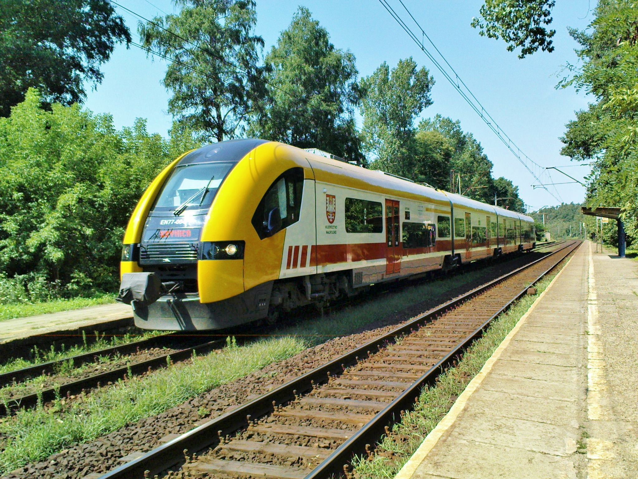 Szarów - electric unit EN77-004d relationship Kraków-Krynica